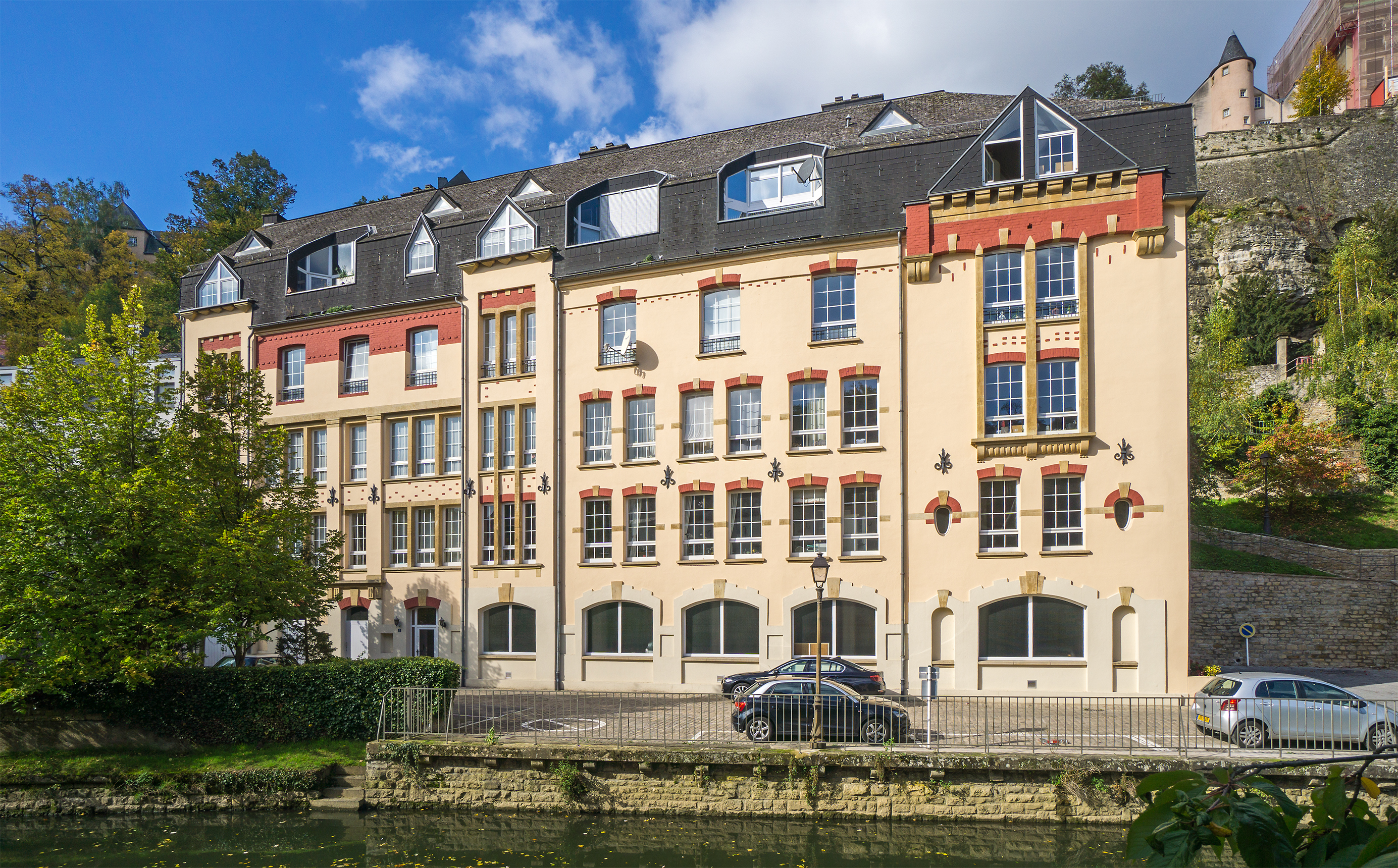 Former manufactory for gloves in Luxembourg-Grund